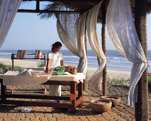 Taj Spa at Taj Exotica, Goa